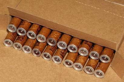 LSAT caseless ammo packed